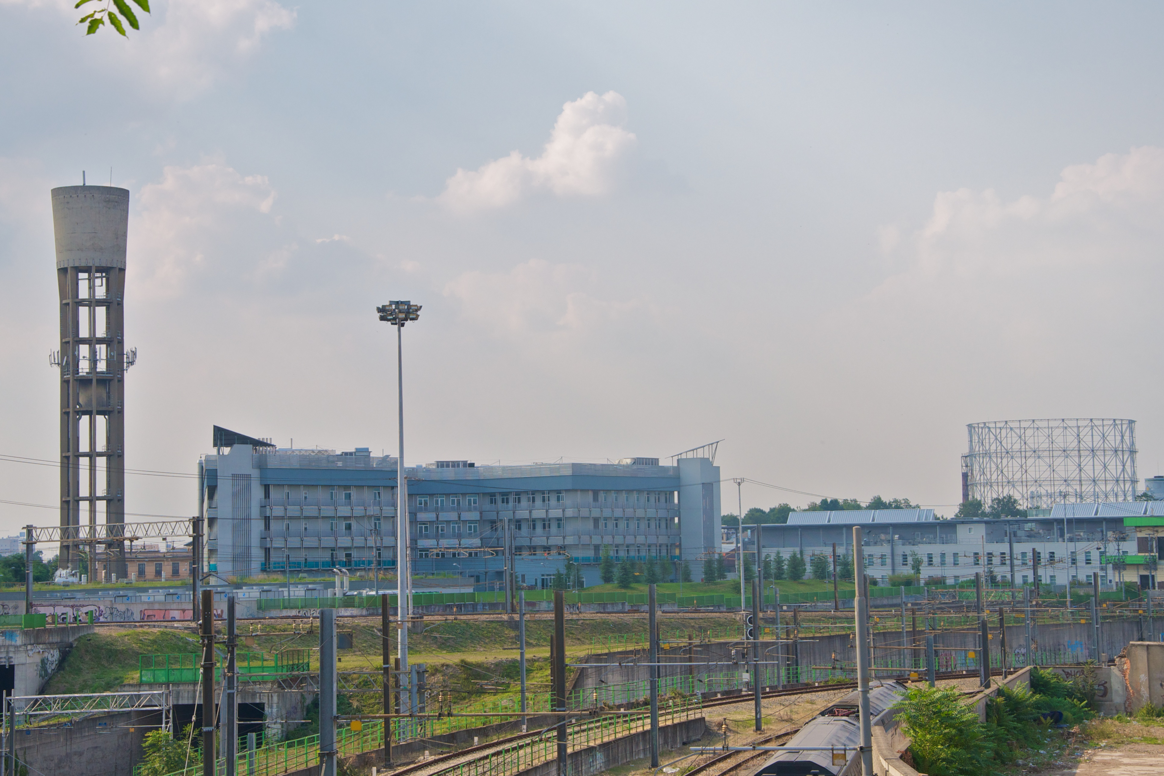 Post industrial Landscapes of Milan Bovisa in 2010